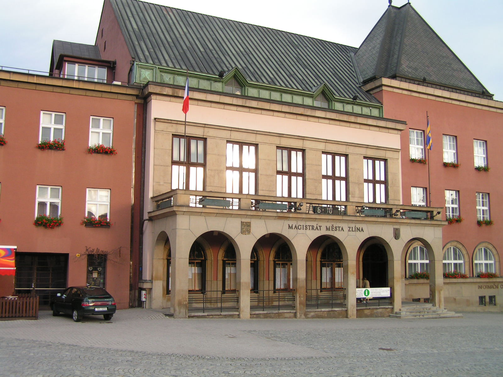 Zlín, town hall.